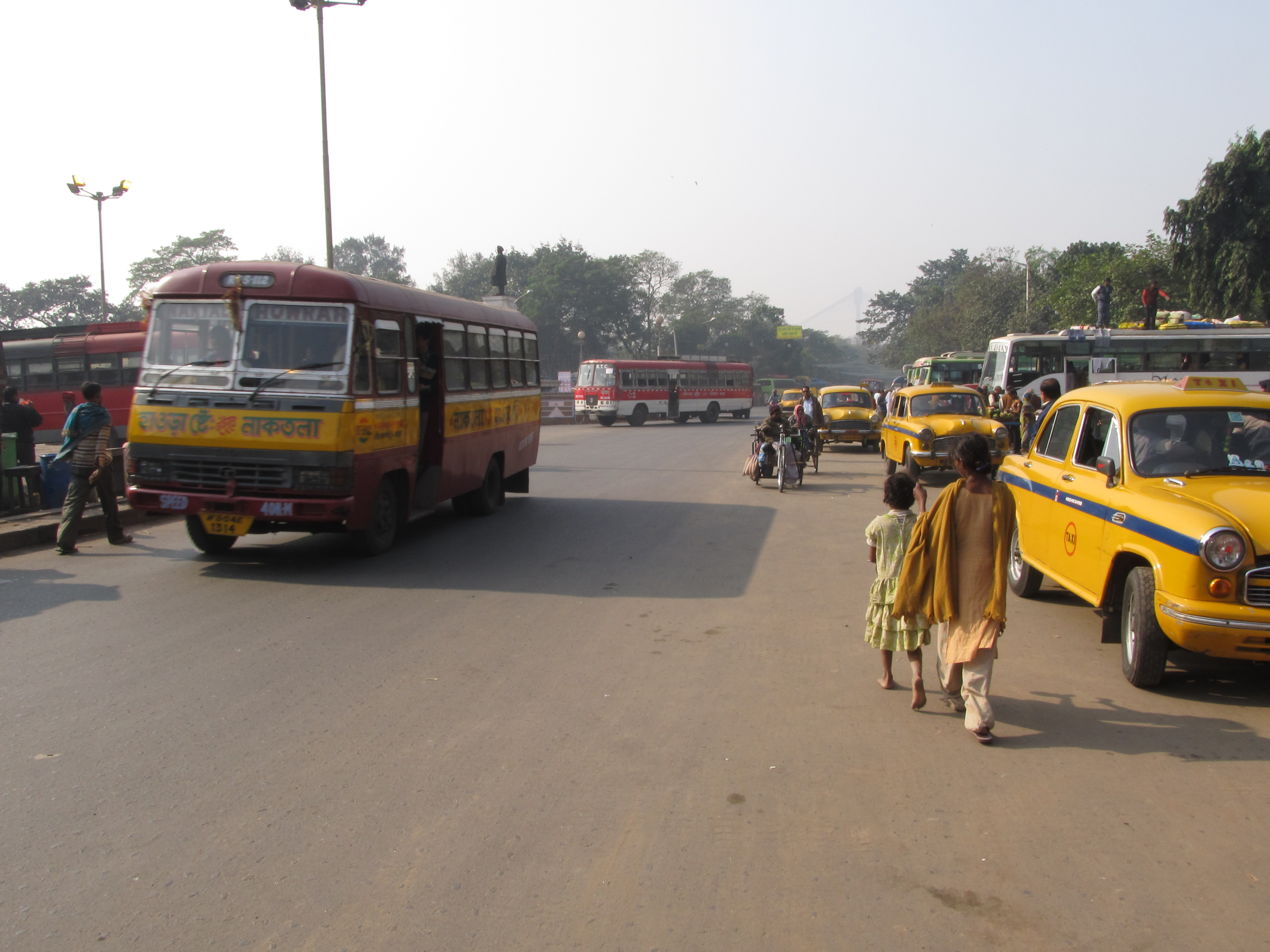 Photographed at Kolkata.